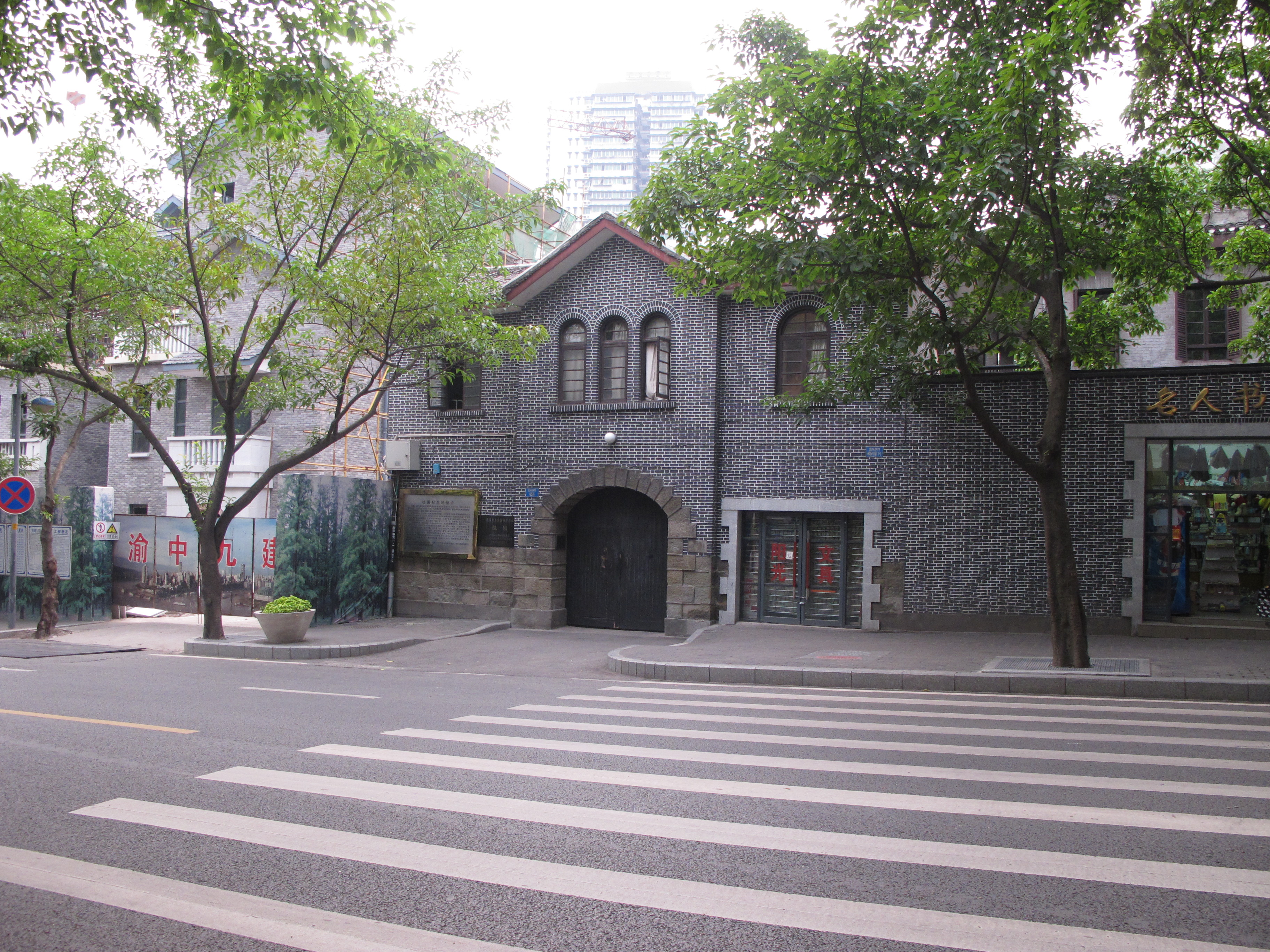 Guiyuan, Chongqing